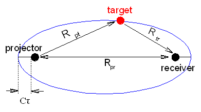 Bistatic sonar dead zone(the leftmost distance highlighted in the figure must be c*t / 2)